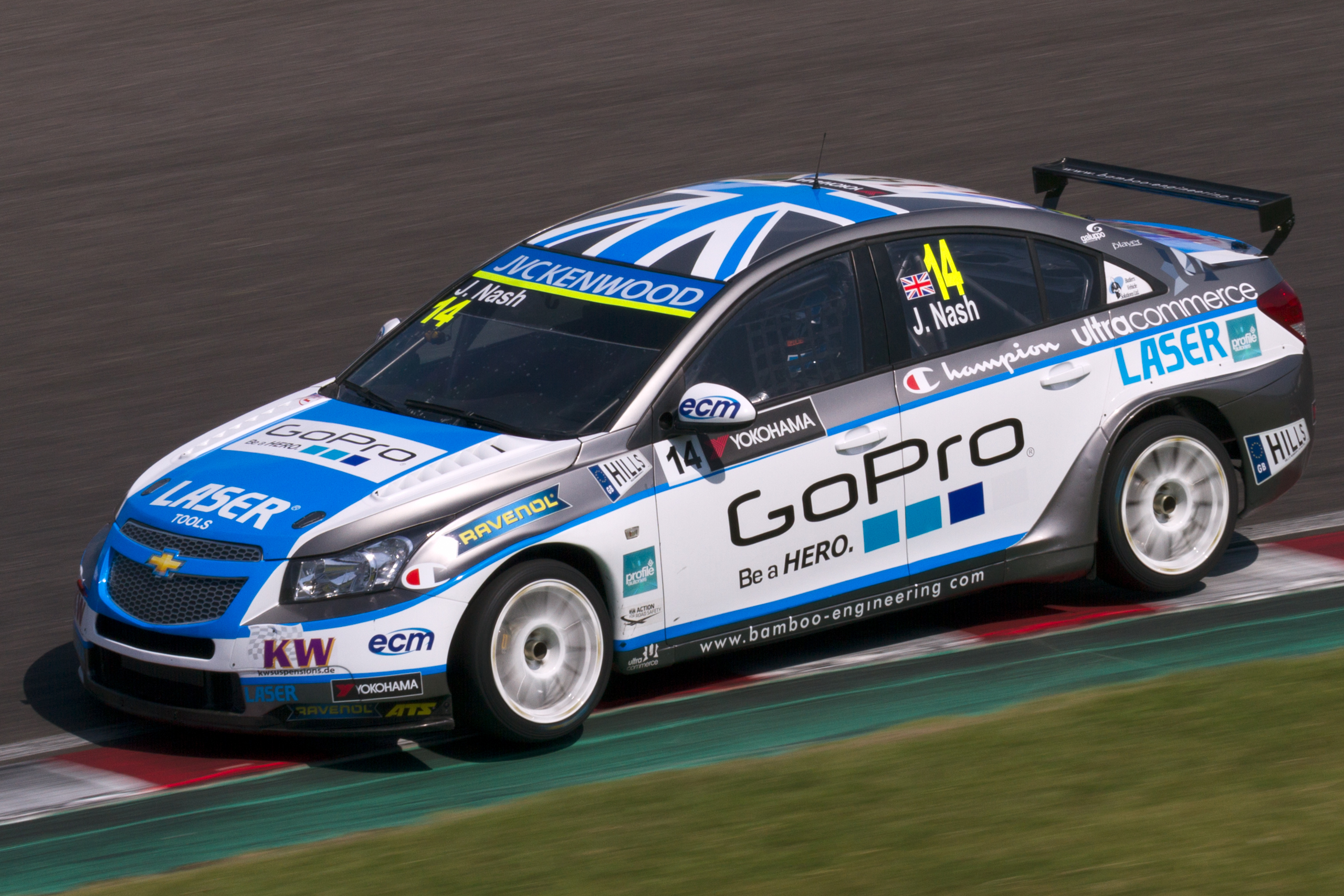 World Touring Car Championship 2013 Race of Japan: James Nash (bamboo-engineering)